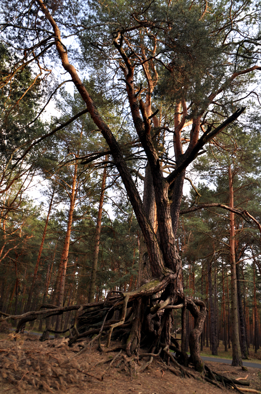 Wolzig tree